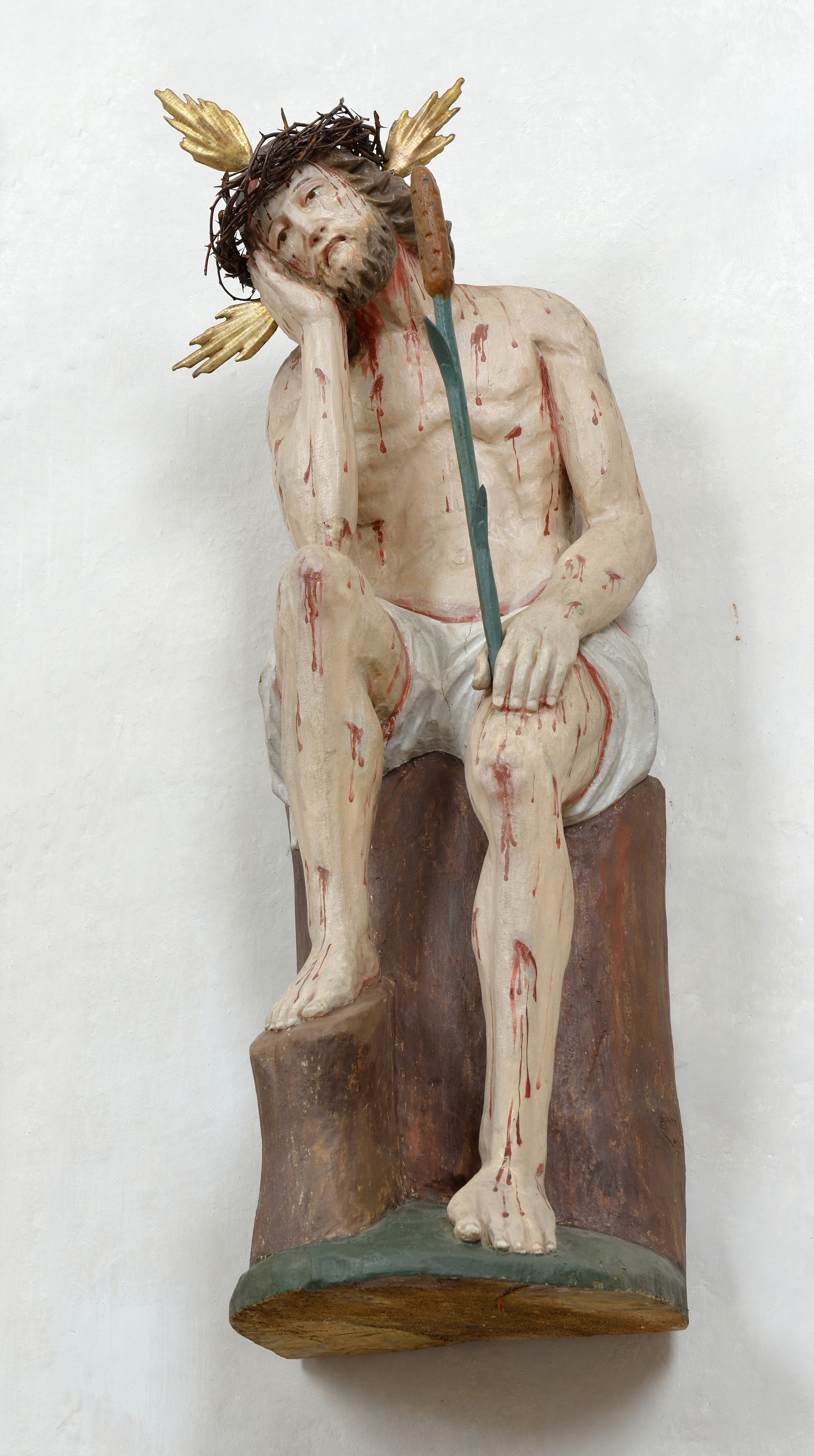 Polychromed woodcarved statue of "Ecce homo" in the Saint Maurice church in Villanders (Italy).